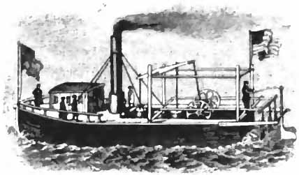 Drawing of a steamboat designed and build by John Fitch in April 1790. It was used for a whole summer as a regular passenger boat between Philadelphia, Pennsylvania and Burlington, New Jersey, with a speed of eight miles an hour.